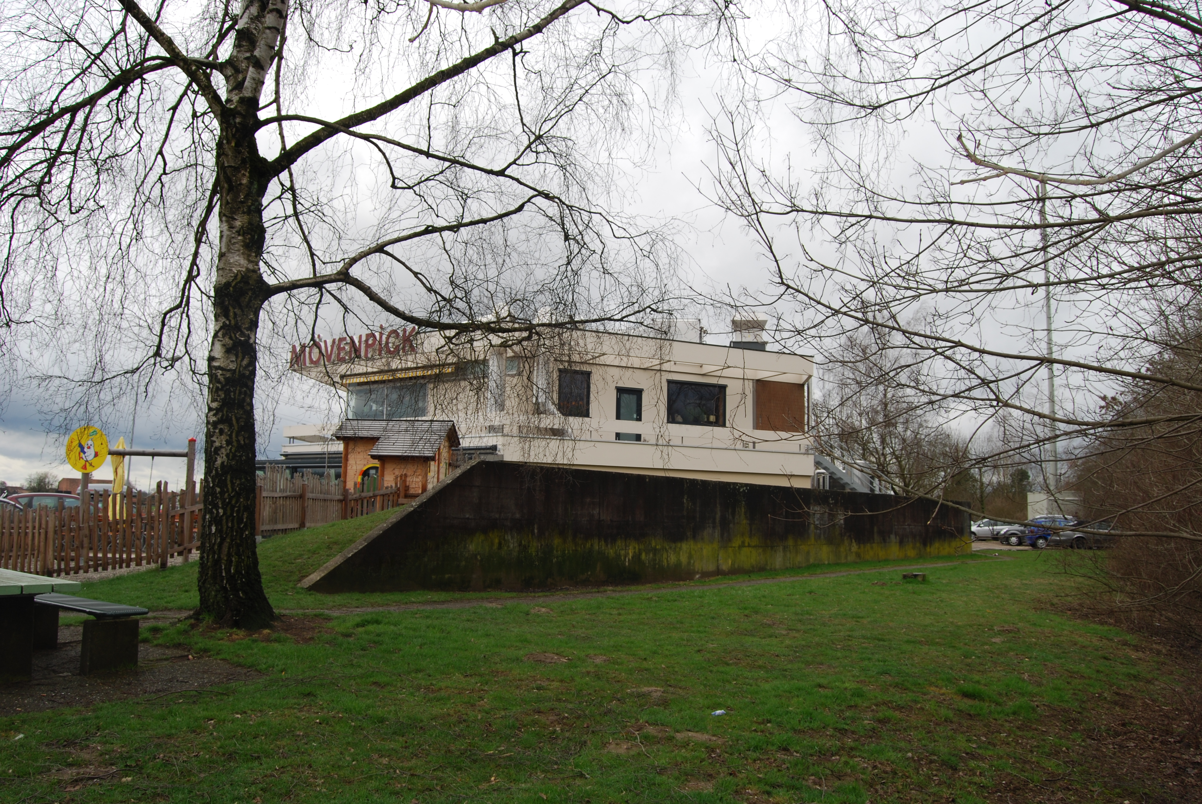 Möwenpick Restaurant at the highway service area Deitingen Nord, canton of Solothurn, SwitzerlandEsperanto: Möwenpick-restoracio de la aŭtovojrestadejo Deitingen Nordo, Kantono Soloturno, Svislando